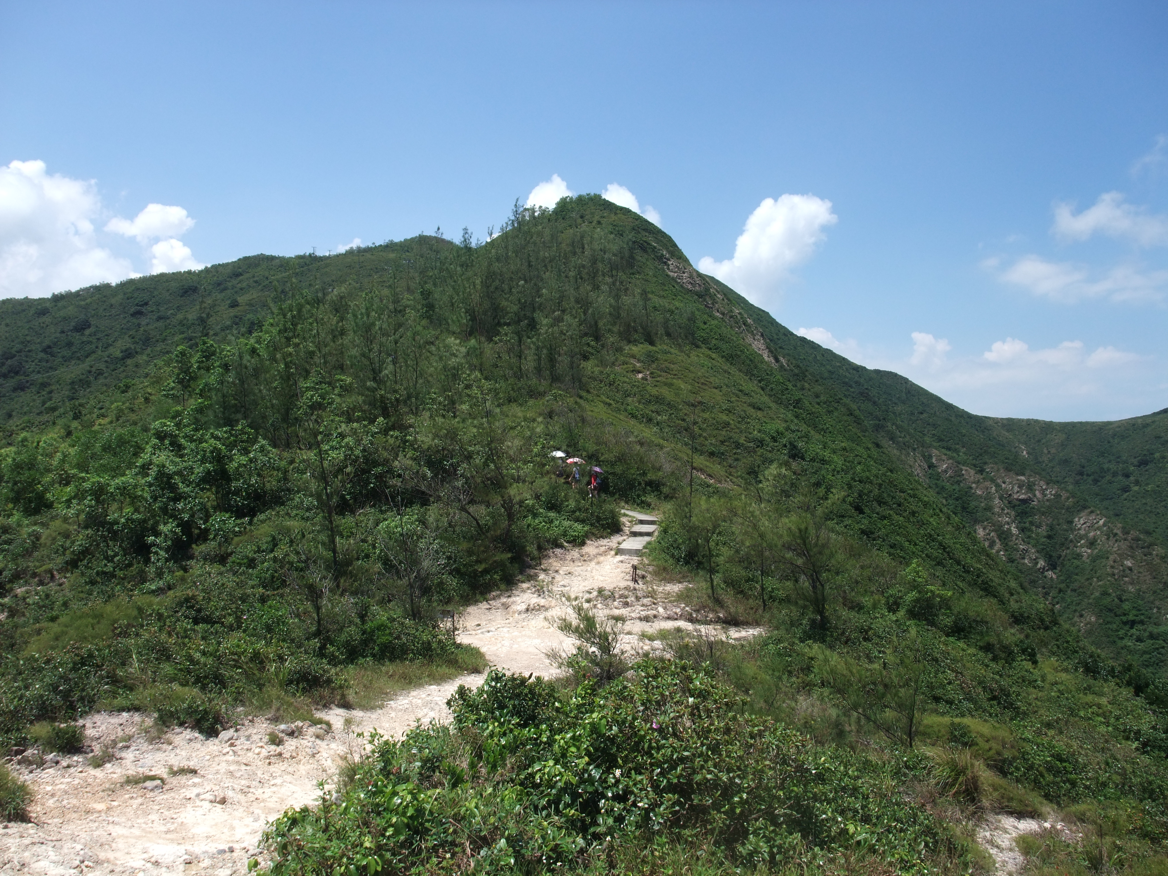 Photo of Sai Wan Shan